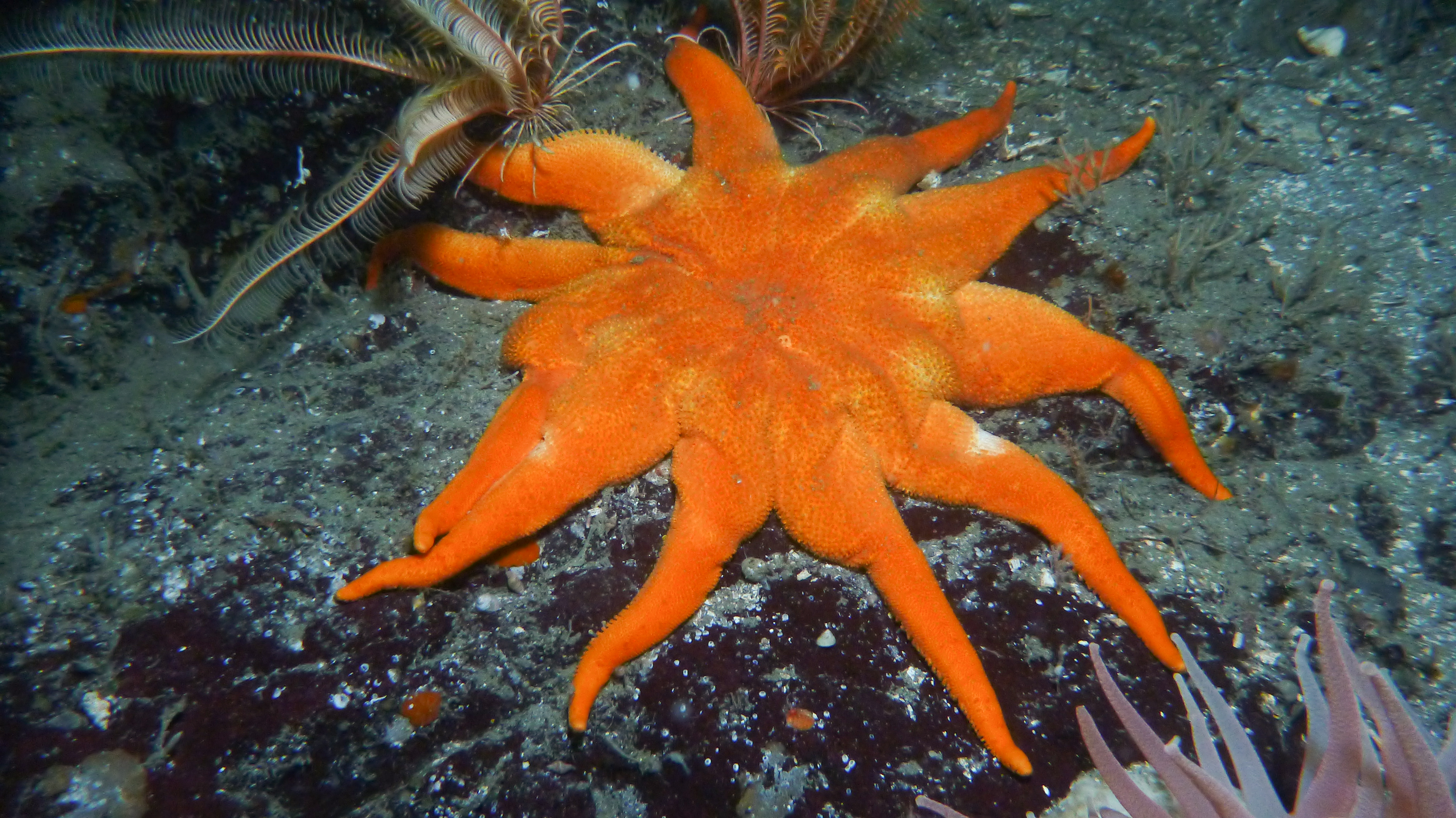 Apparently-moribund Solaster dawsoni. Kelvin Grove, September 2, 2013